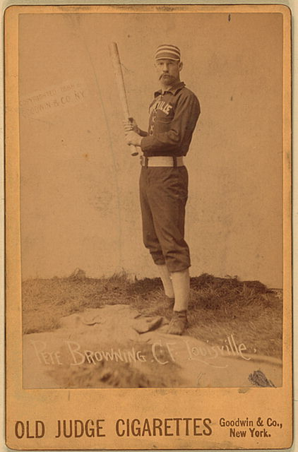 Pete Browning on an 1888-1889 Goodwin & Company baseball card (Old Judge Cabinets (N173)).